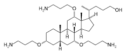 Chemical structure of CSA-8. The formula was drawn using BKchem, and GIMP by user Mykhal.